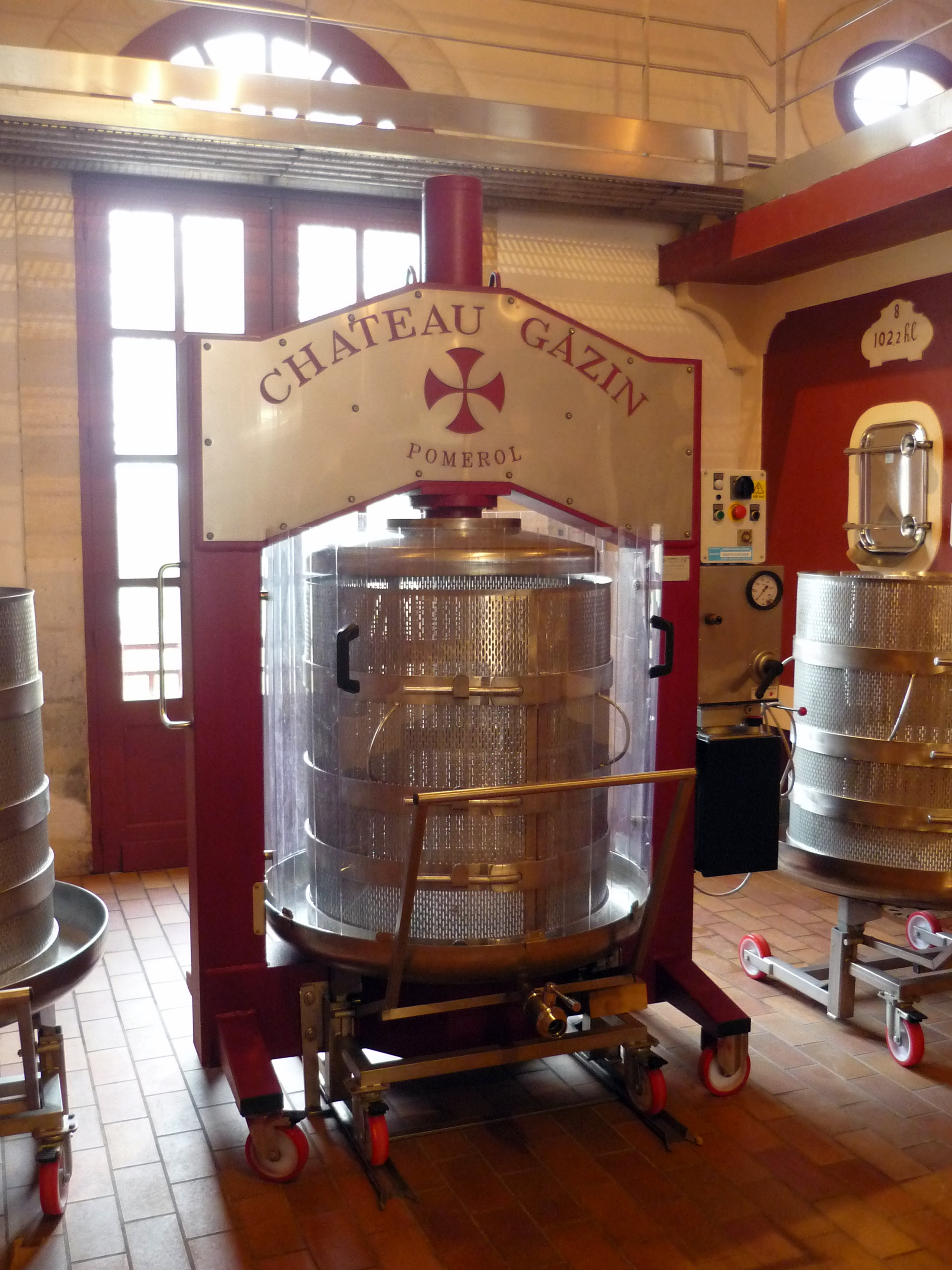 Press at Pomerol winery Château Gazin located in the right bank of the French wine region of Bordeaux